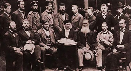 Staff of the Pulkovo Observatory (1883–1886). From left to right. Standing: Alexander Zhdanov, Ya. Zeibot, Nikolaj Yakovlevich Tsinger, Karl Hermann Struve, Herman Yakovlevich Romberg, F. F. Vitram, E.E. Lindeman, Gustav Wilhelm Ludwig Struve, V. Gerbst. Sitting: R.R. Lazarevich, Magnus Nyrén, A. Wagner, Otto Wilhelm von Struve, Johann Heinrich Wilhelm Döllen, B. Hasselberg (see swedish article), Oskar Backlund.